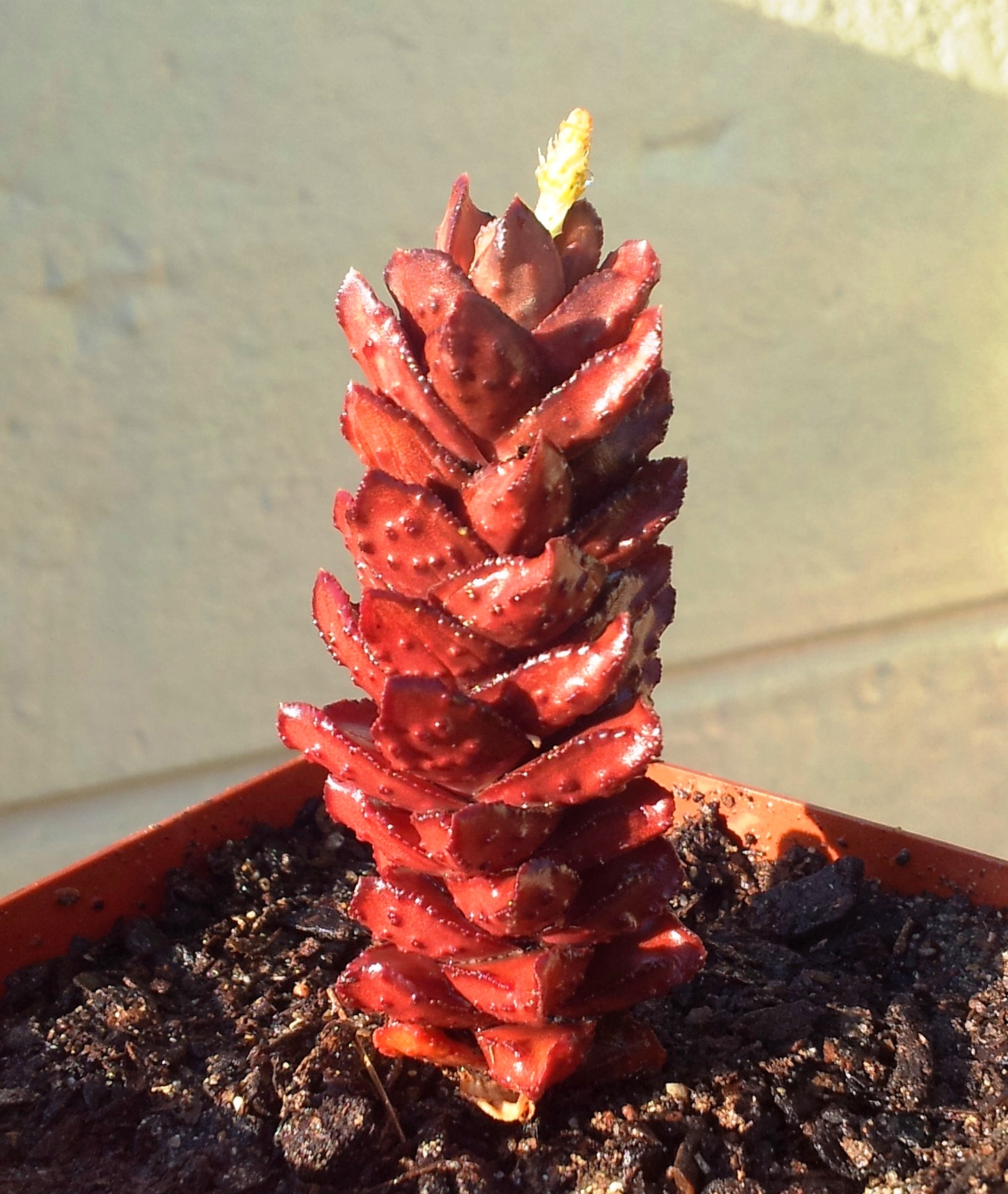 Astroloba bullulata in cultivation - Cape Town